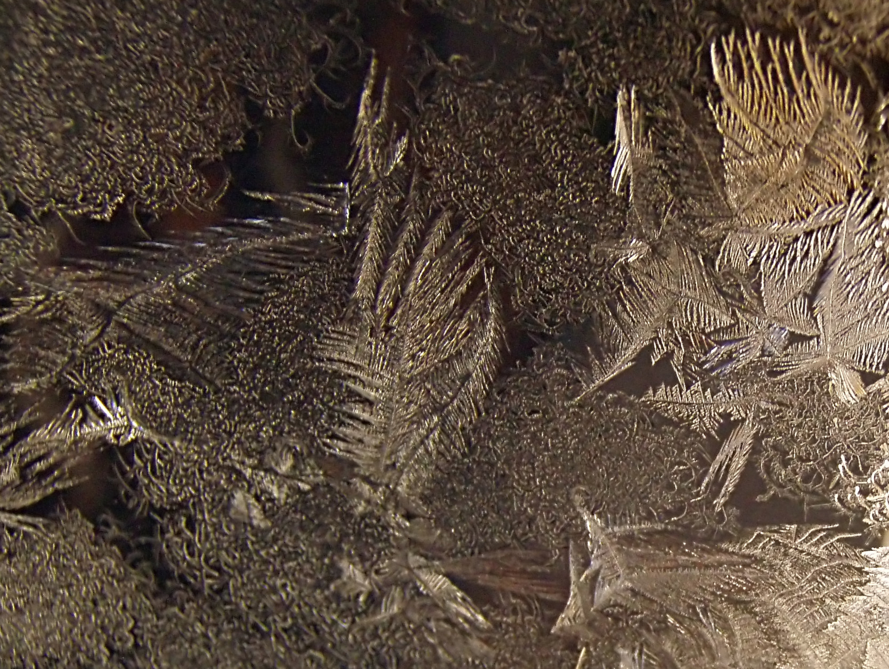 Ice crystals at a refrigerator window